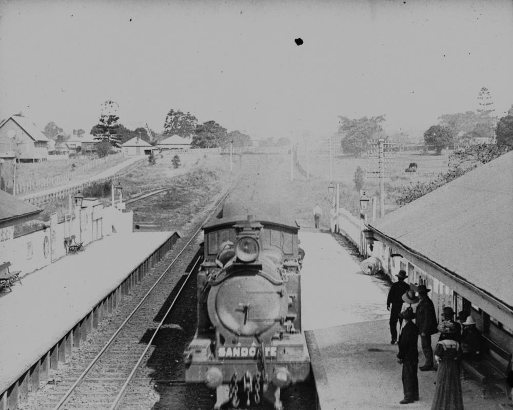 Waiting at the Railway Station, Nundah, ca. 1910